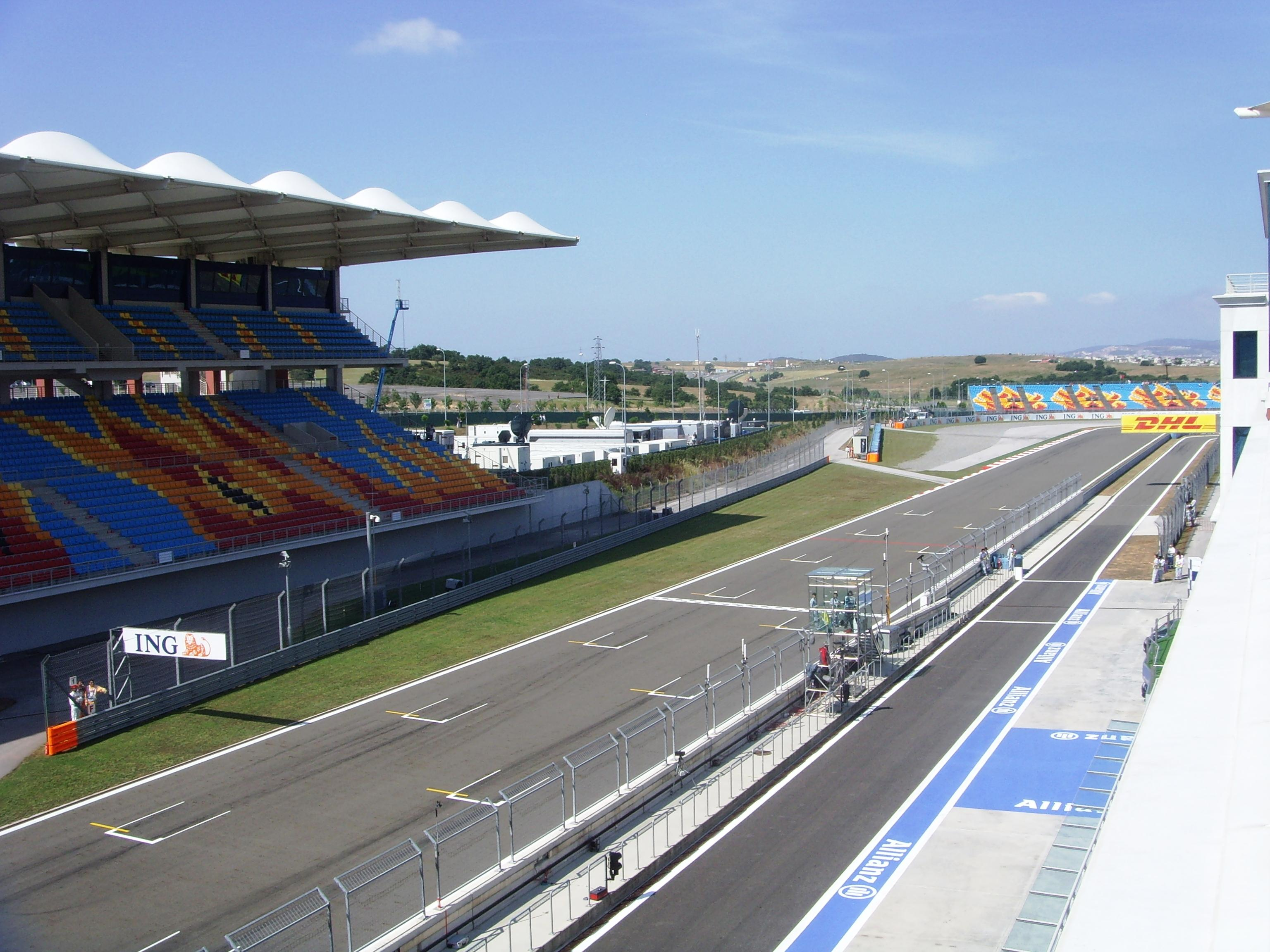 Front straight of Istanbul Park from terrace of the paddock club